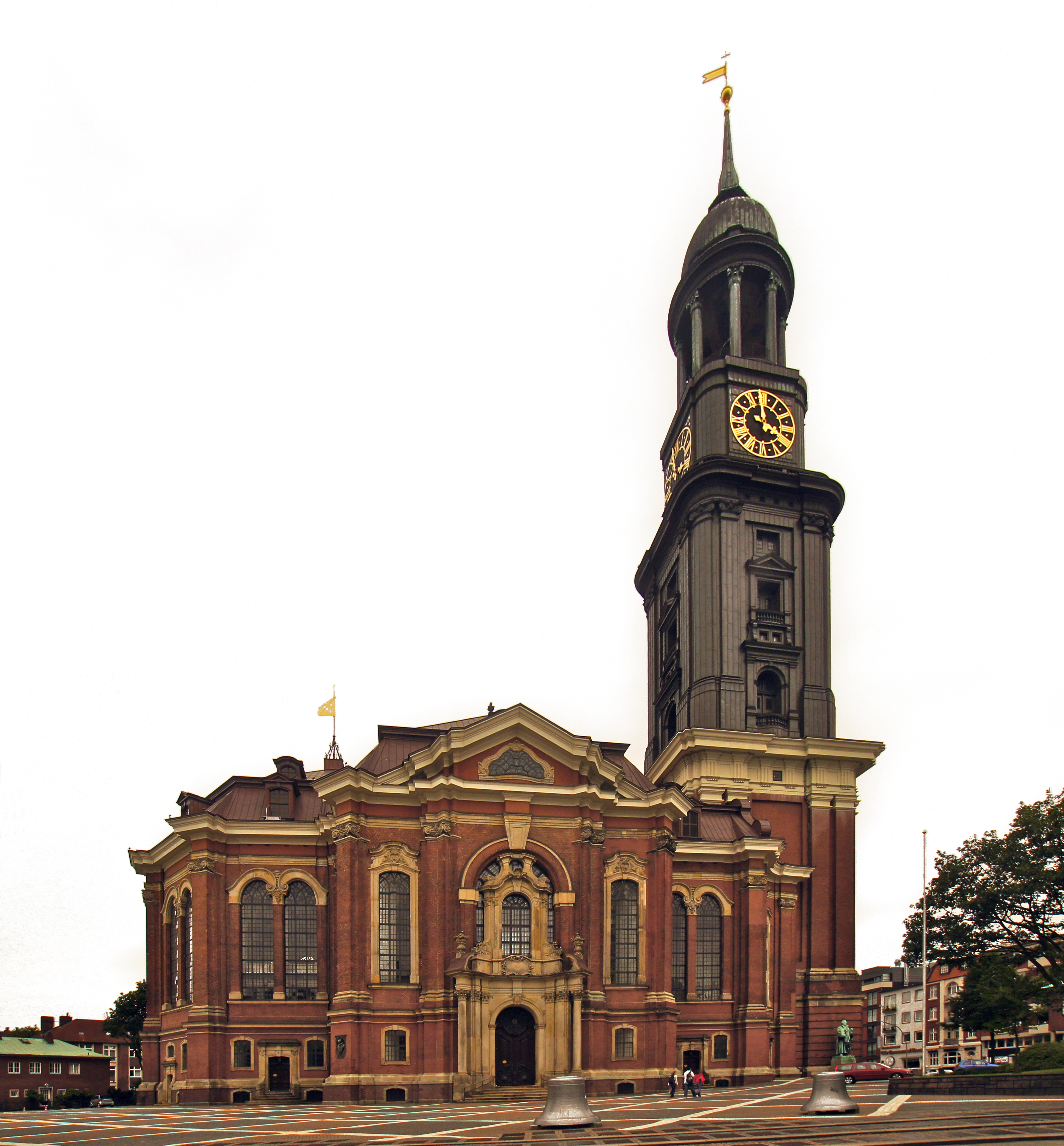 Hamburg, Germany: Northern façada and tower from the St. Michaelis Church